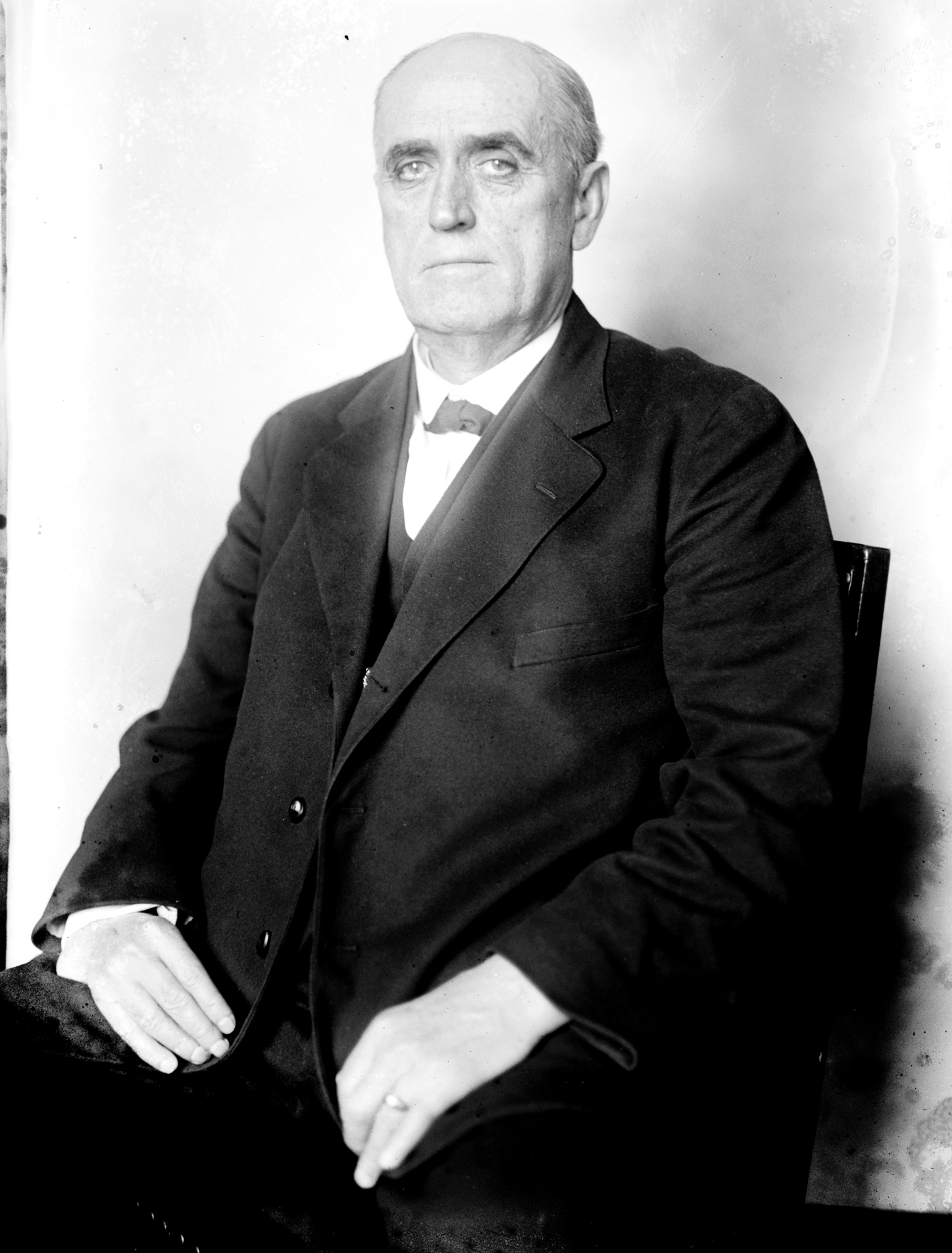 Lemuel P. Padgett, US Representative from Tennessee